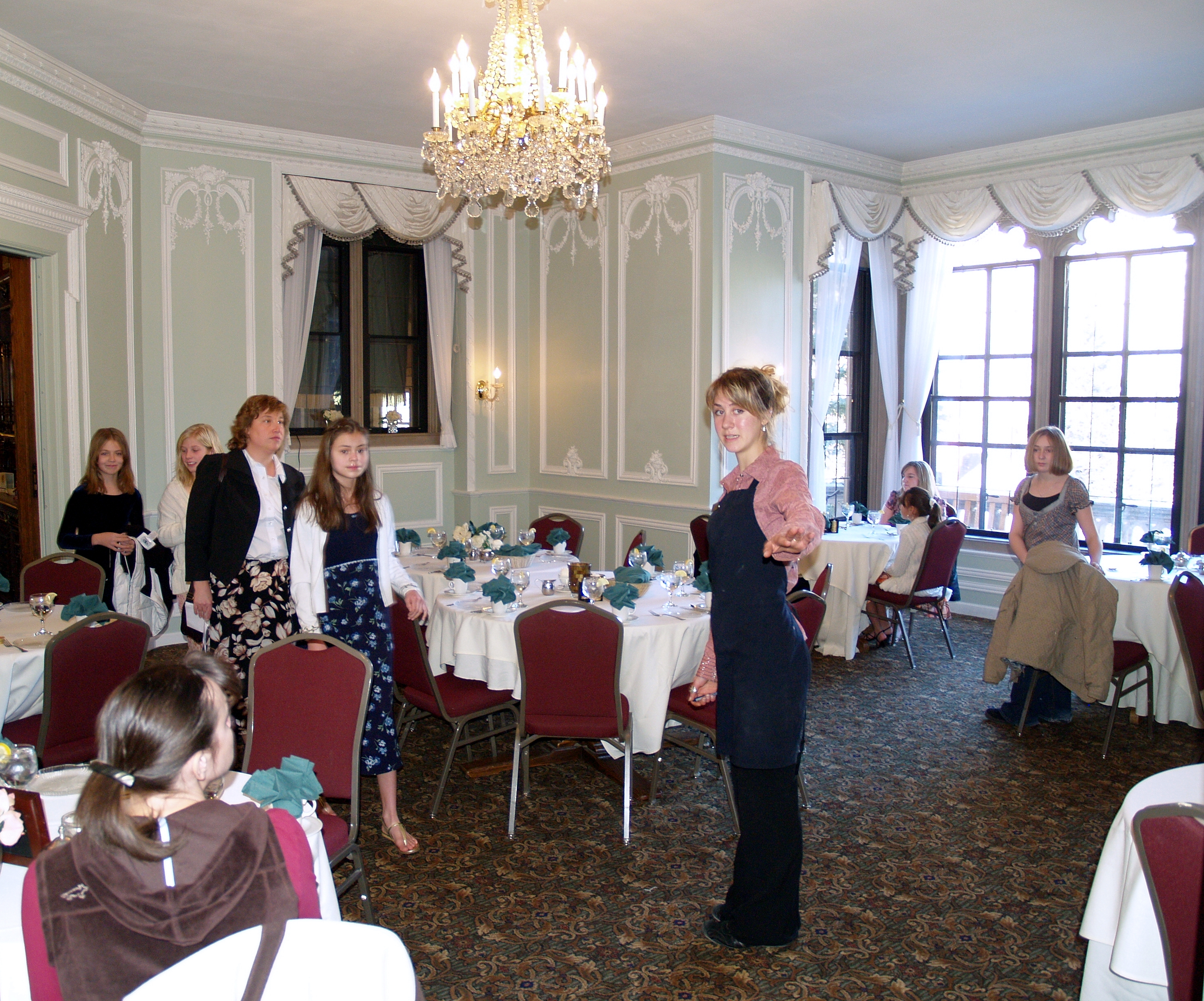 Glen Eyrie castle tea room in Colorado Springs.